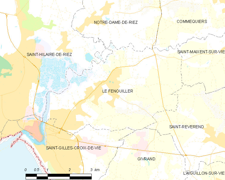 Map of French municipality Le Fenouiller